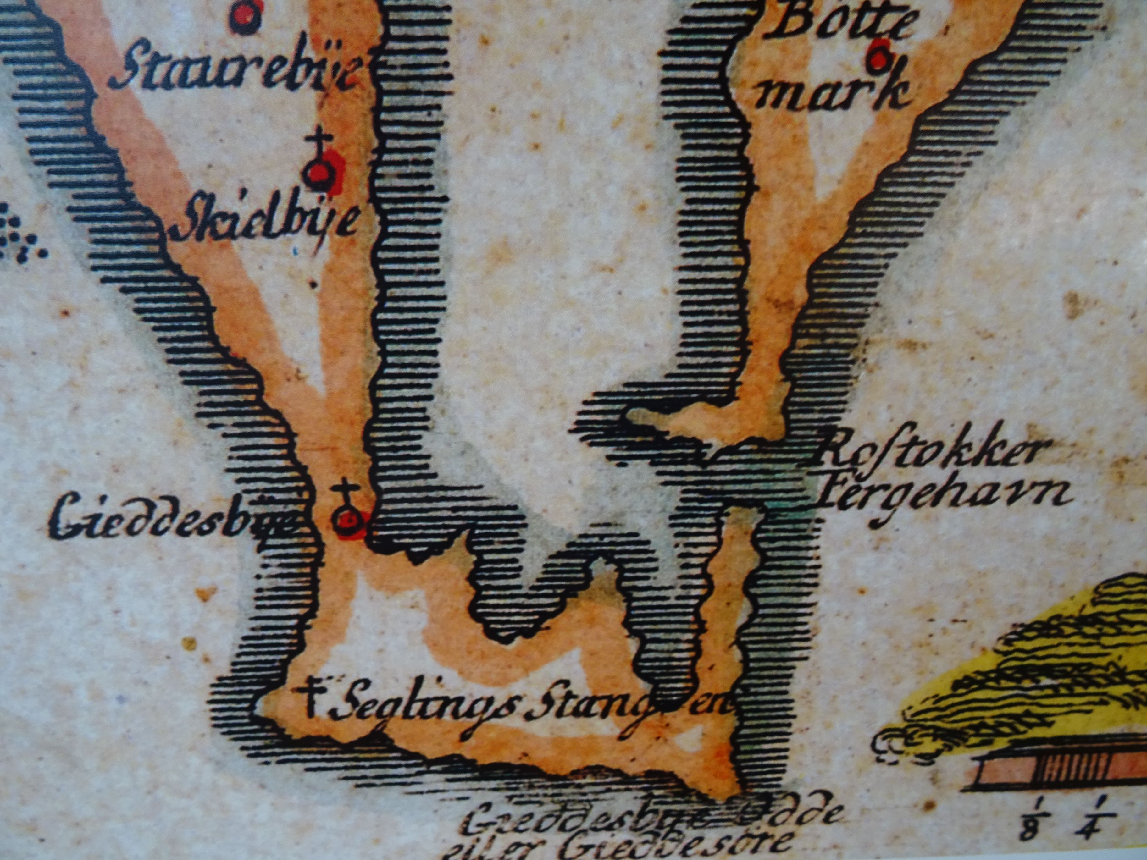 Historical map of South Falster before train ferry Gedser-Warnemünde and before the foundation of the city of Gedsert